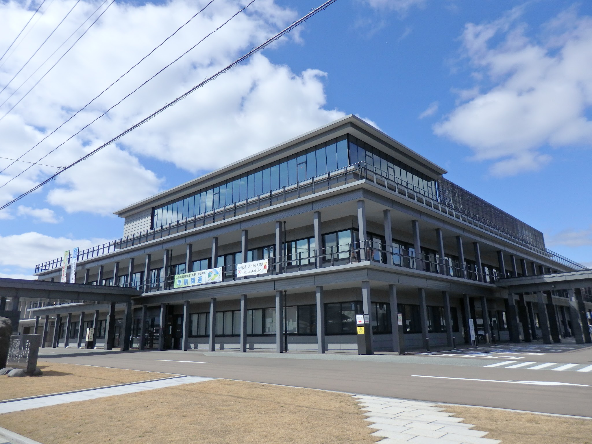 Ono city hall(since:2015-01-04)